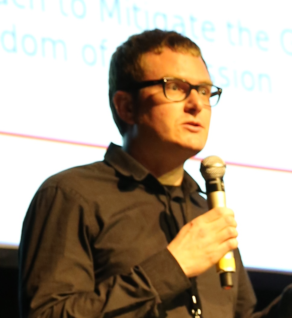 Volker Grassmuck ( crop from File:Ulf Buermeyer @ 10np (15568912046) (cropped).jpg